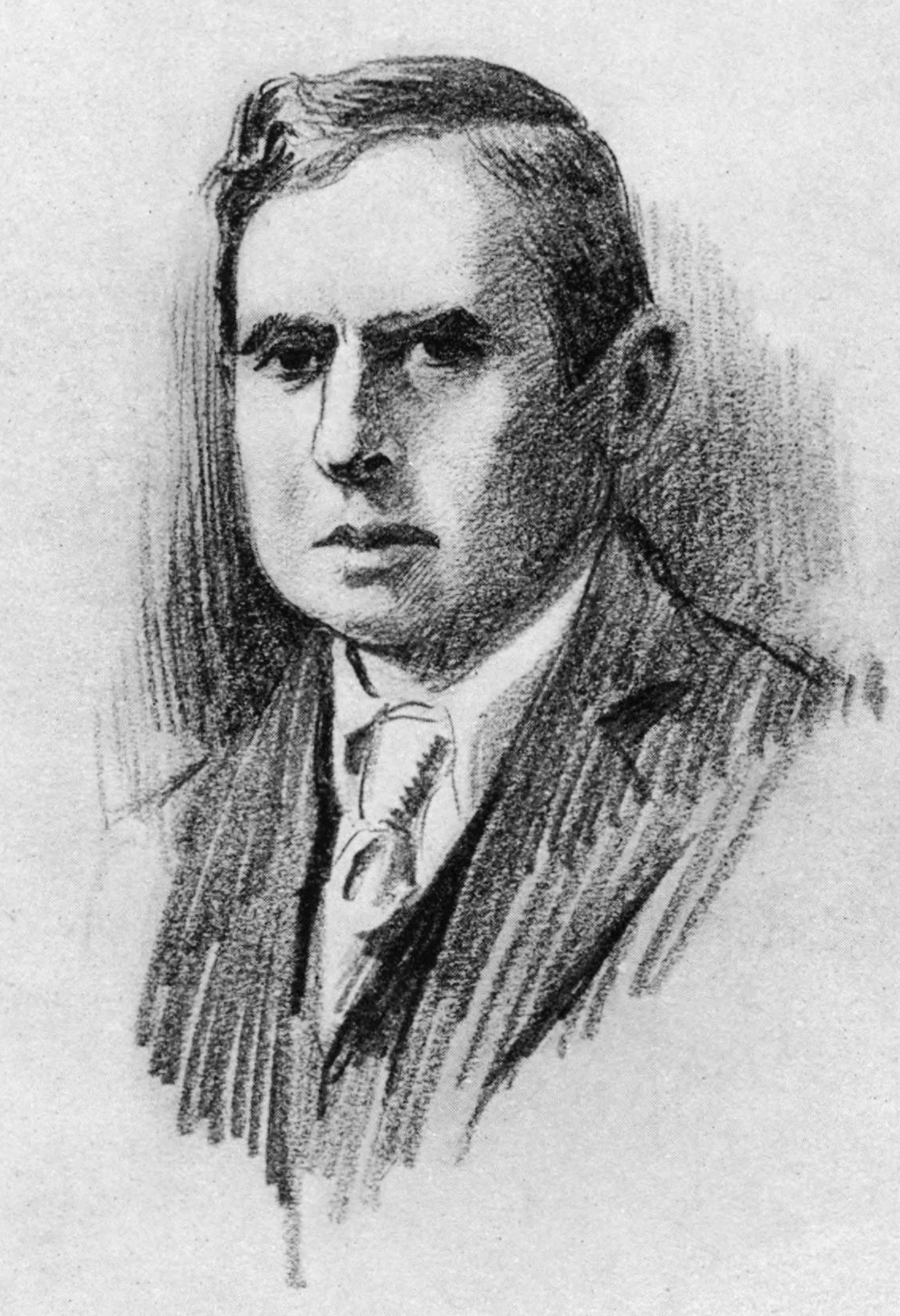 American writer Theodore Dreiser.